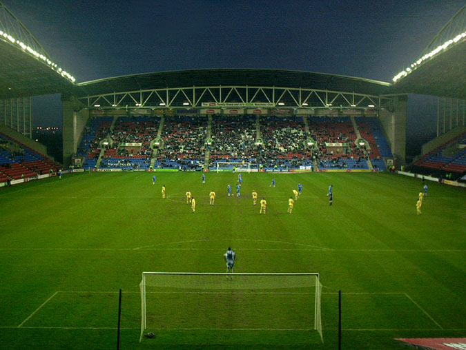 A view of the JJB Stadium before the second half kicks off in a game between Wigan Athletic and Gillingham.